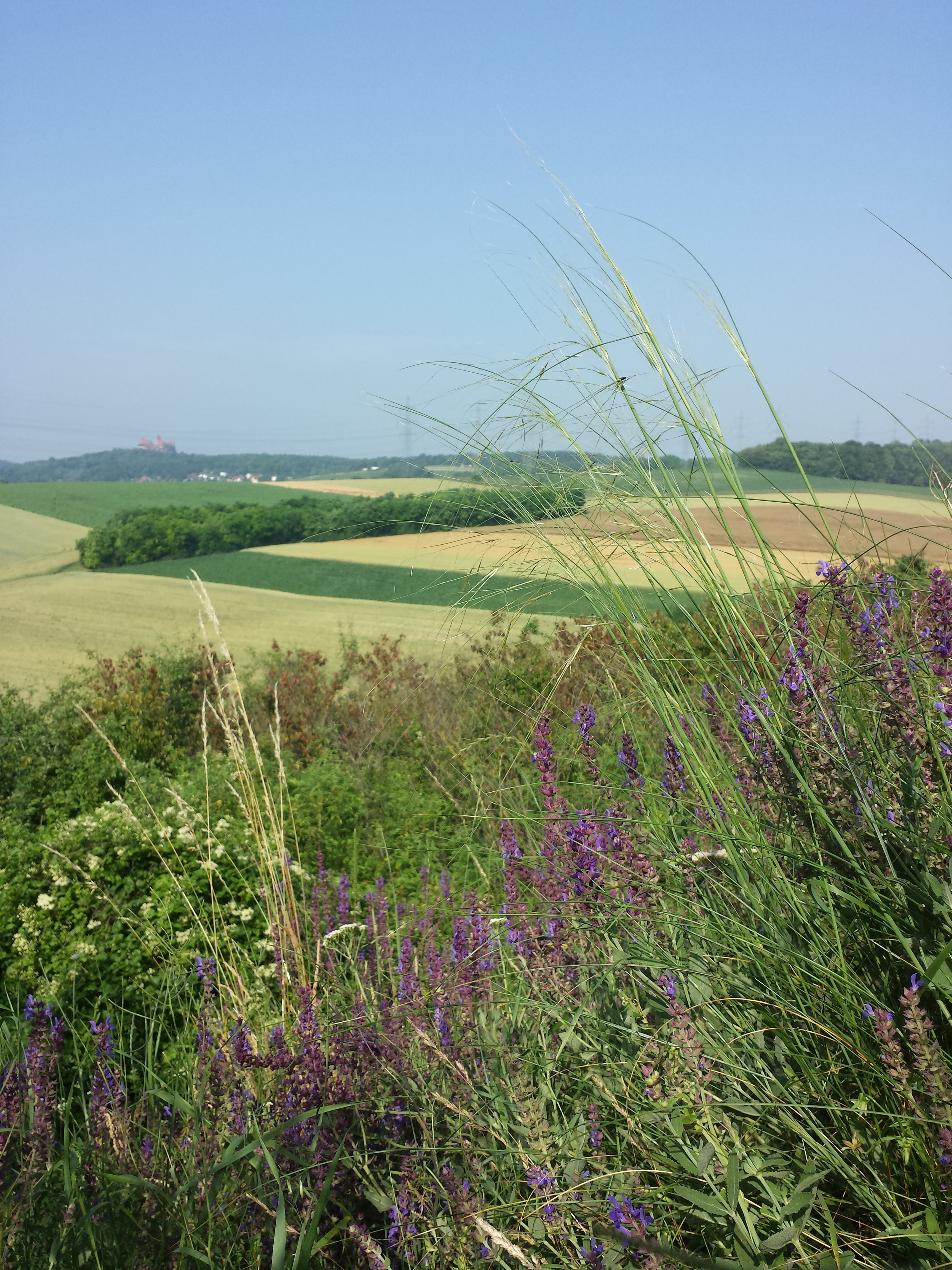 Habitus Taxonym: Stipa capillata and Salvia nemorosa ss Fischer et al. EfÖLS 2008 ISBN 978-3-85474-187-9 Location: border of an abandoned sand pit near Tresdorf, district Korneuburg, Lower Austria - ca. 200 m a.s.l. Habitat: dry grassland on sand (Korneuburg formation)